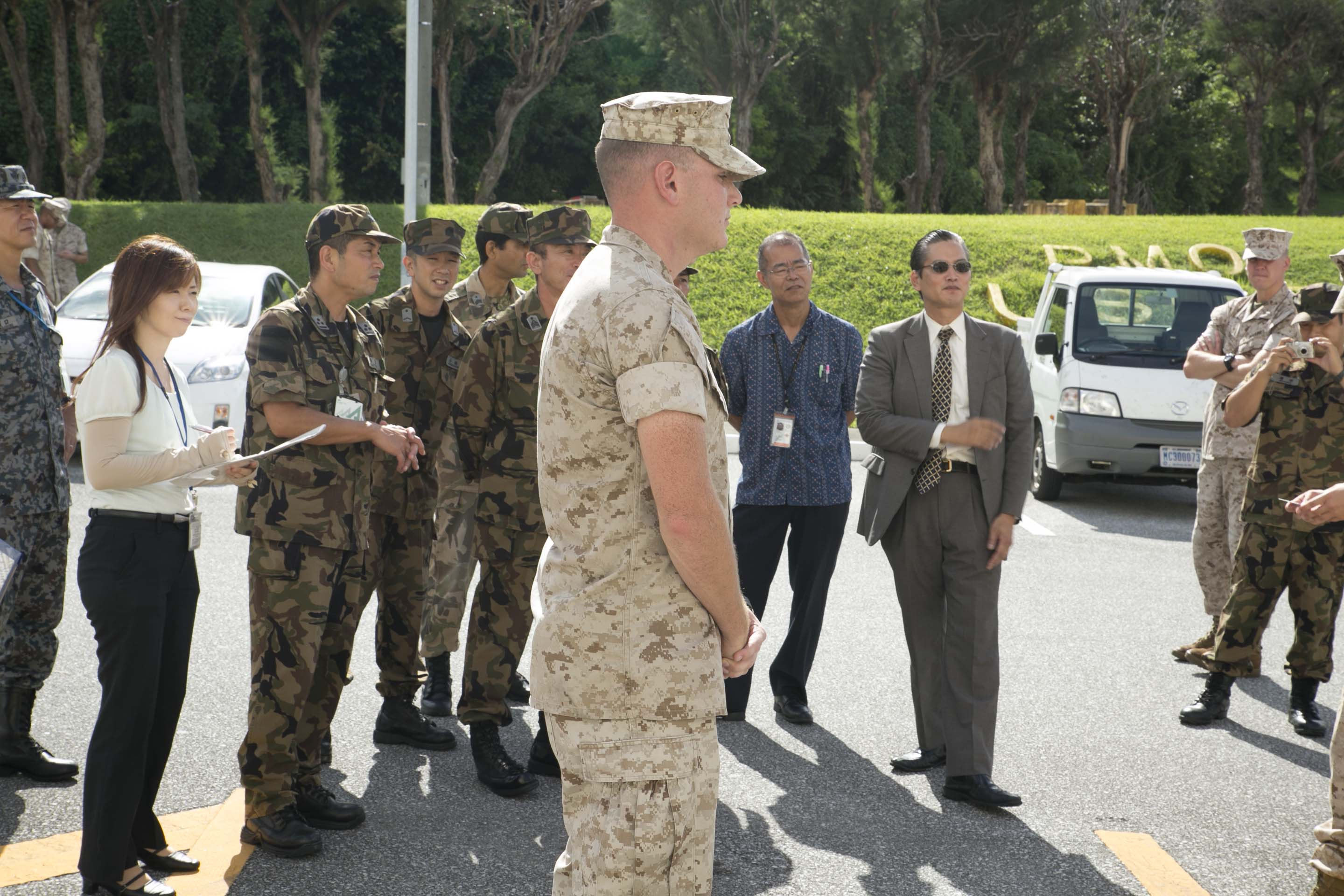 Air policemen of the Japan Air Self-Defense Force observe the daily duties of U.S. military police during a visit to the Provost Marshal’s Office on Camp Foster.